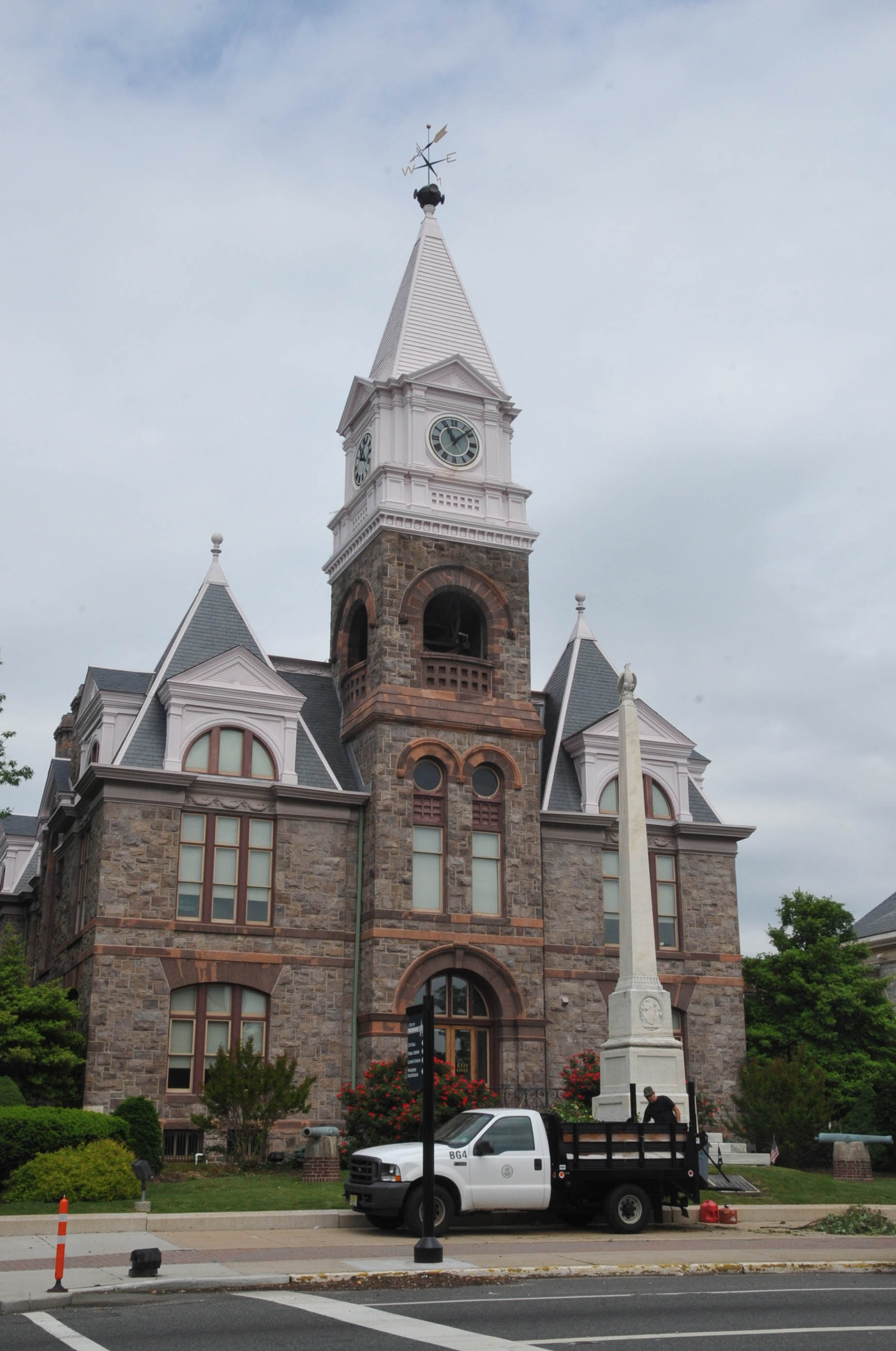 THIS IS THE OLD COURTHOUSE BUILDING ON BROAD STREET. A NEWER ONE HAS BEEN BUILT ON HUNTER STREET